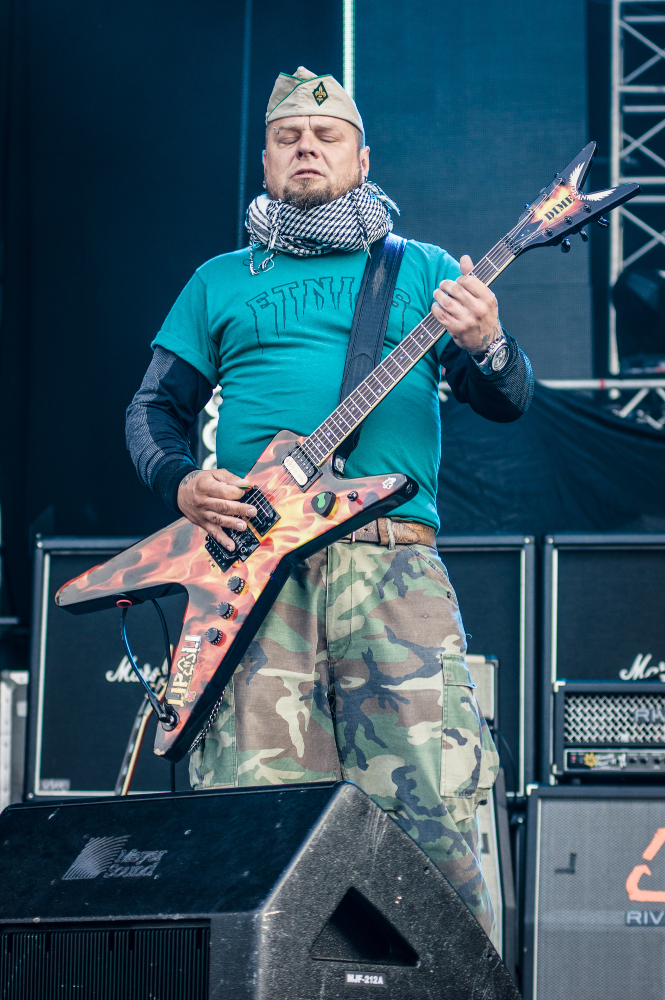 Tomasz Lipnicki - vocalist and gutarist of Lipali band. Ursynalia 2012, Warsaw, Poland.